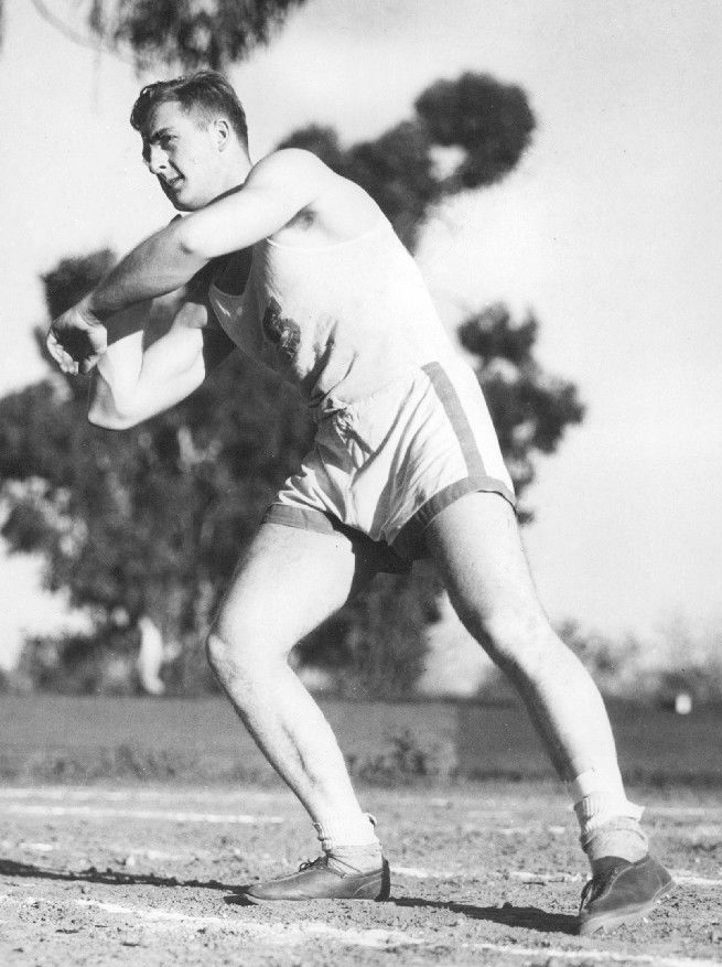 1936 Stanford University Track and Field John Lyman Shot Put Press Photo